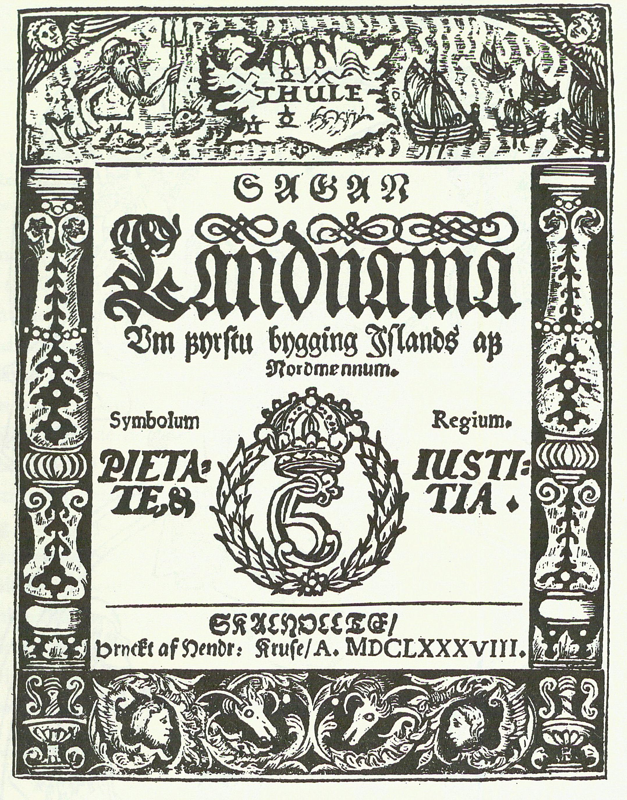 The titul-page of the first edition of Landnámabók